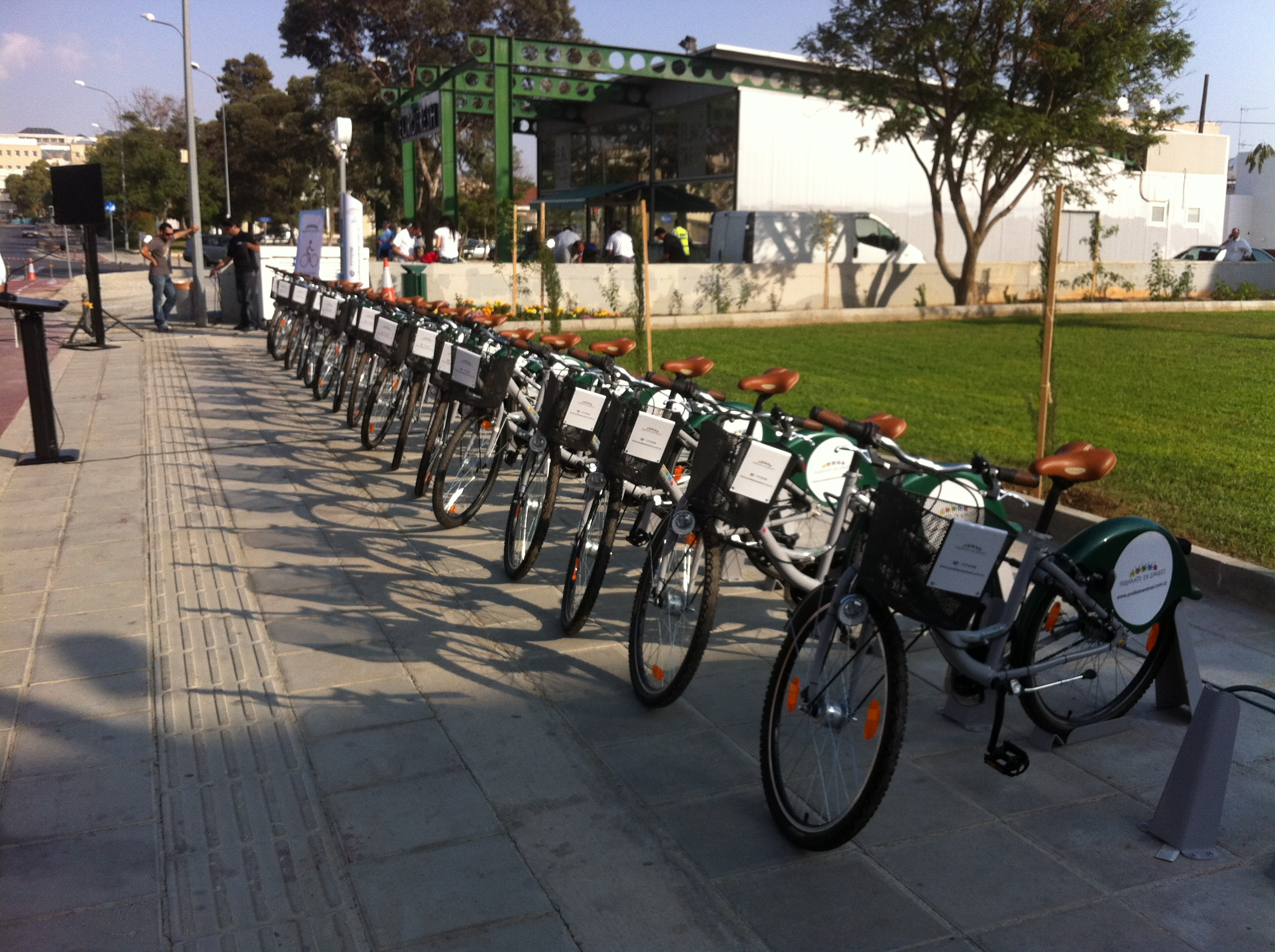 A station with many bicycles in Nikosia.